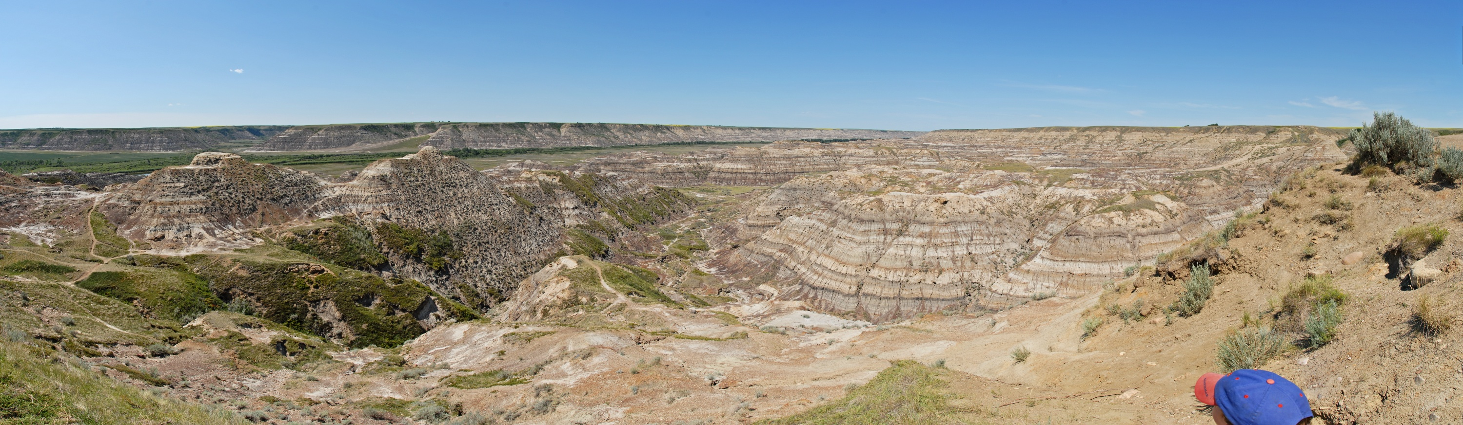 A view of the Horsethief Canyon near Drumheller in Alberta, Canada. Several pictures stitched together in Hugin.